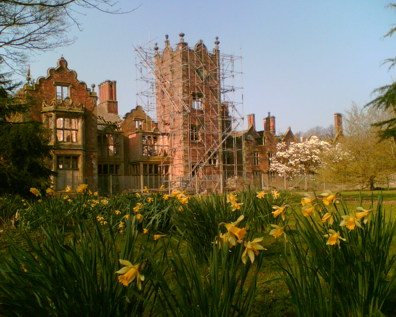 Some of the Daffodils that grow at Bank Hall